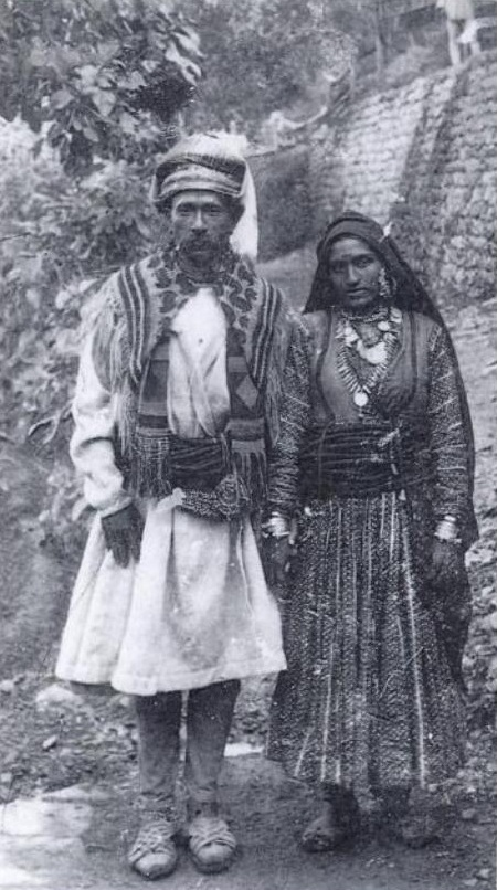 Gaddi couple in traditional attire.